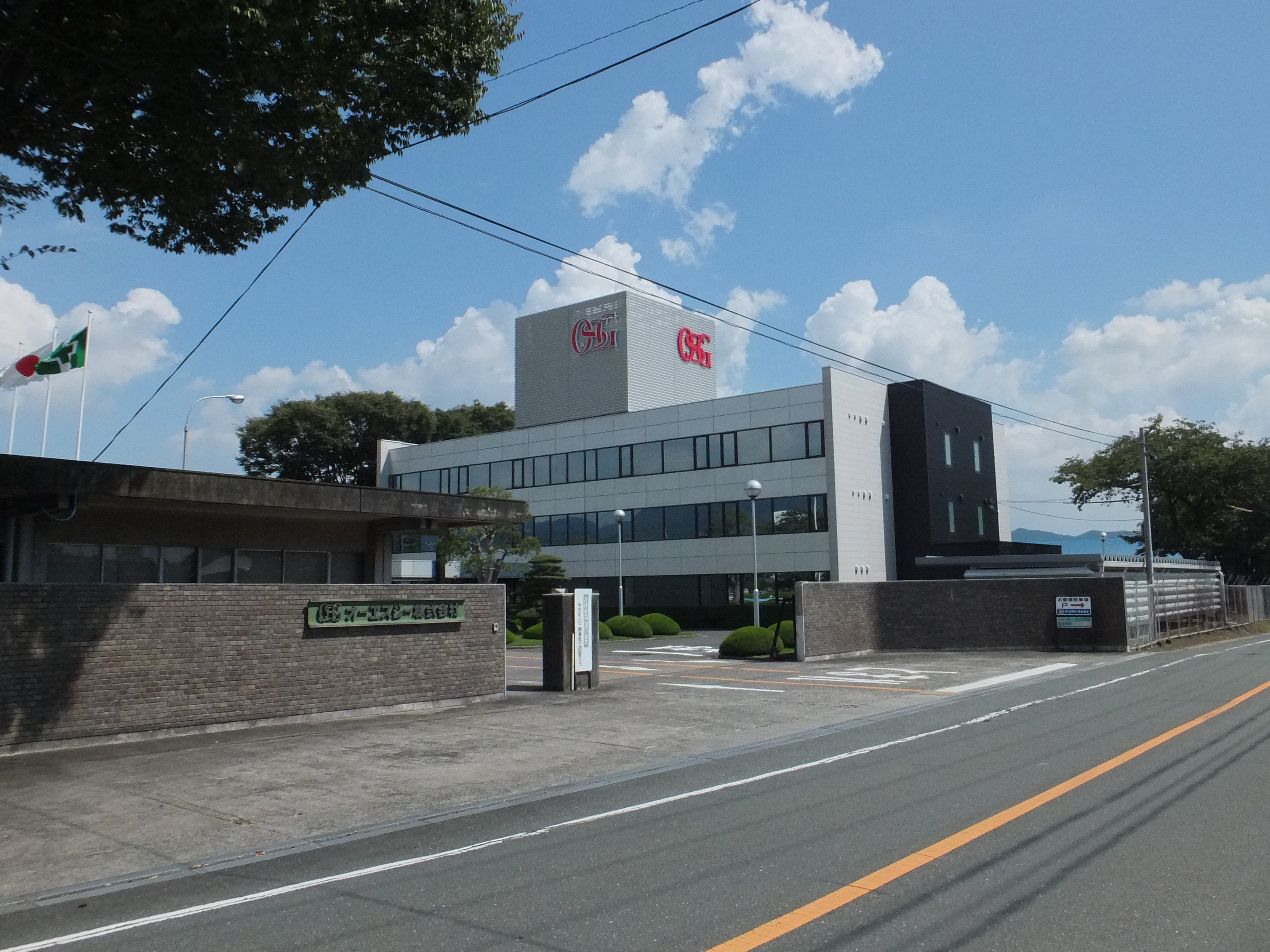 OSG Corp. Oike Factory (オーエスジー株式会社大池工場), located at Kamishinkiri, Ichinomiya-cho, Toyokawa, Aichi, Japan